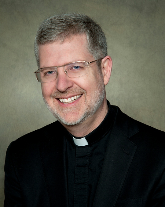 Dennis H. Holtschneider Head shot of the Rev. Dennis H. Holtschneider taken while he was president of DePaul University, 2004-2017